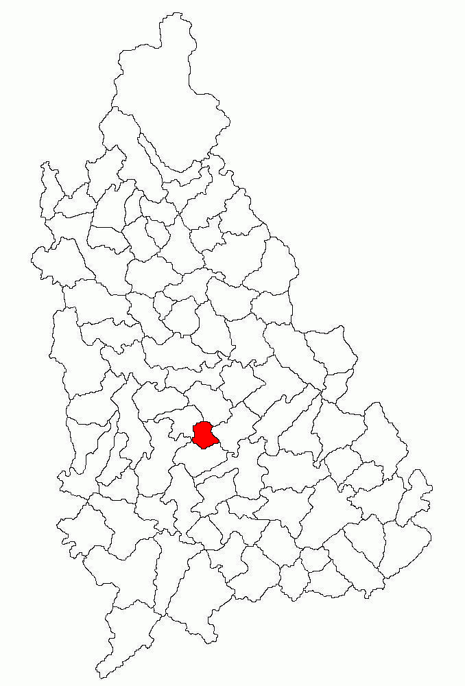 Location map of Persinari Commune in Dambovita County, Romania